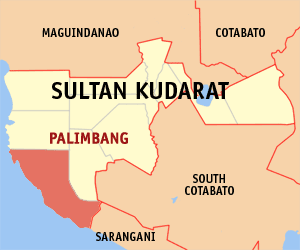 Map of the Sultan Kudarat showing the location of Palimbang